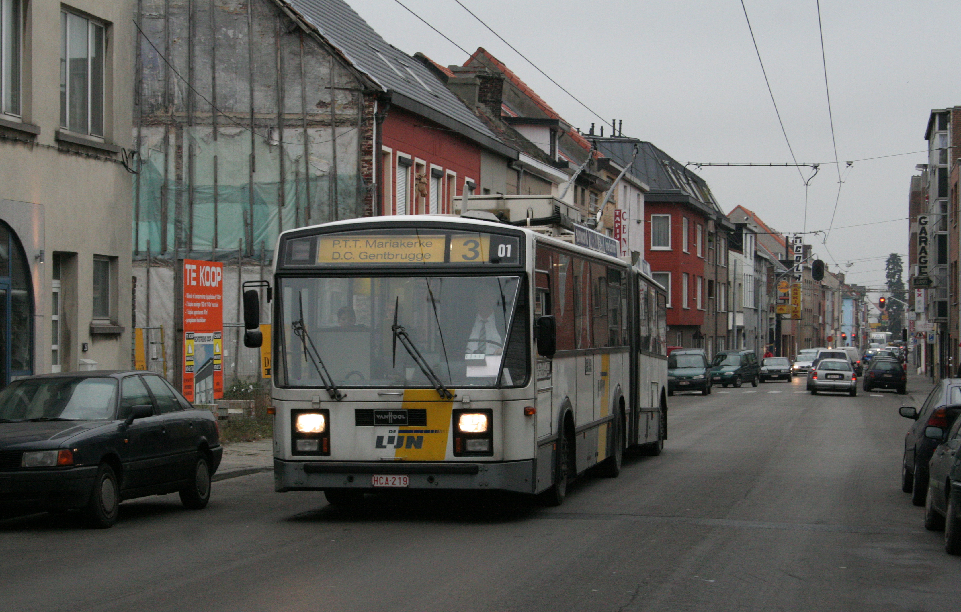 Van Hool-built trolleybus in Gent